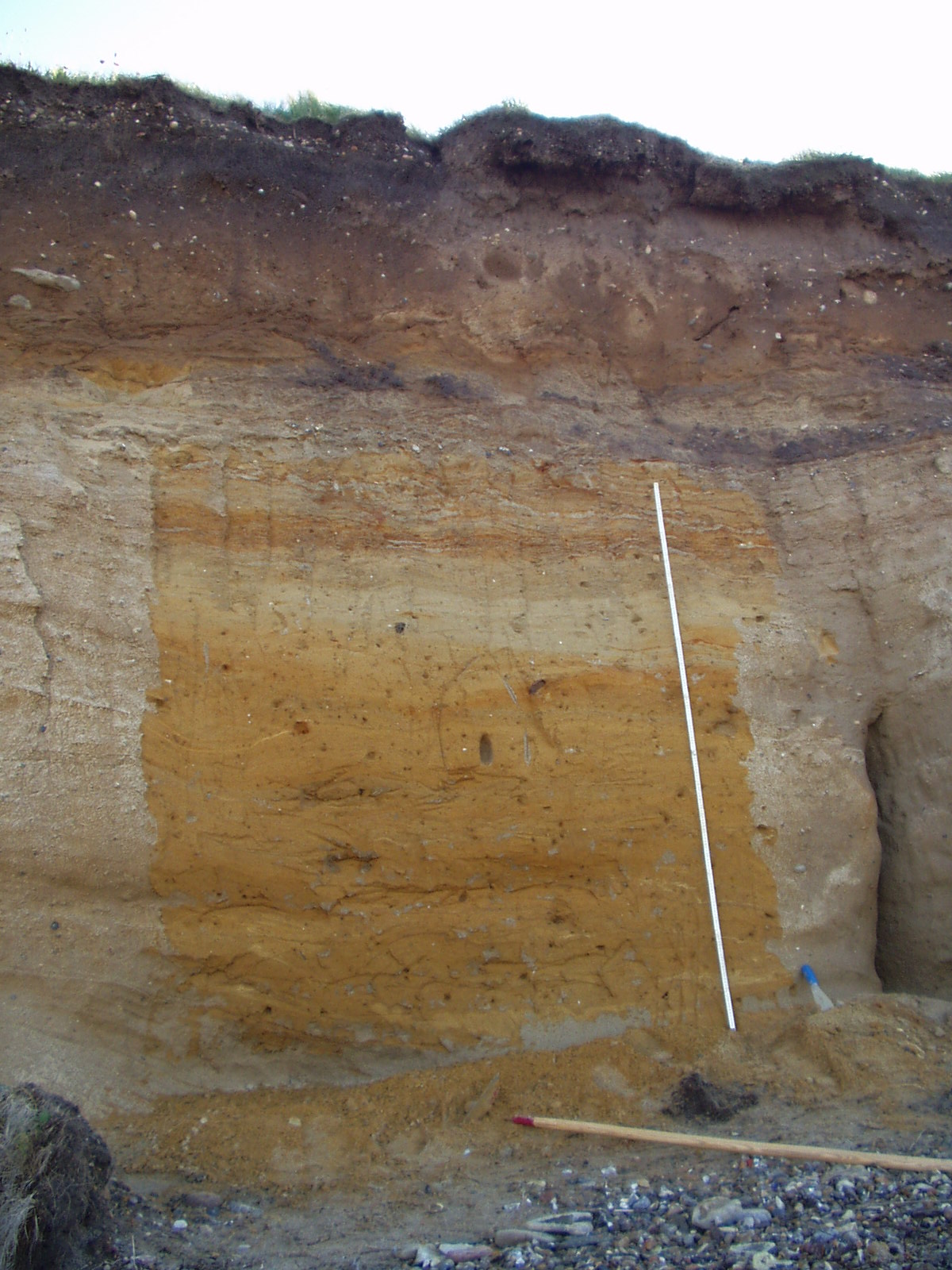 Chernozem, formed in glacial till (glacially deposited diamict (till)) in Northern Jutland, Denmark.